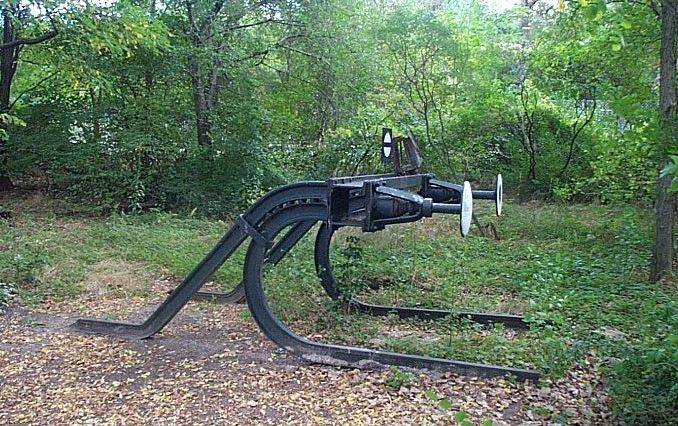 Historic buffer stop in the park of "Deutsches Technikmuseum", Berlin, Germany German Museum of Technology Native nameDeutsches Technikmuseum BerlinLocationBerlinCoordinates52° 29′ 55″ N, 13° 22′ 39″ E Established1983Website control : Q706530 VIAF: 150642200 ISNI: 0000 0001 0121 6426 LCCN: n97103087 GND: 2162237-1 SUDOC: 075899728 WorldCat